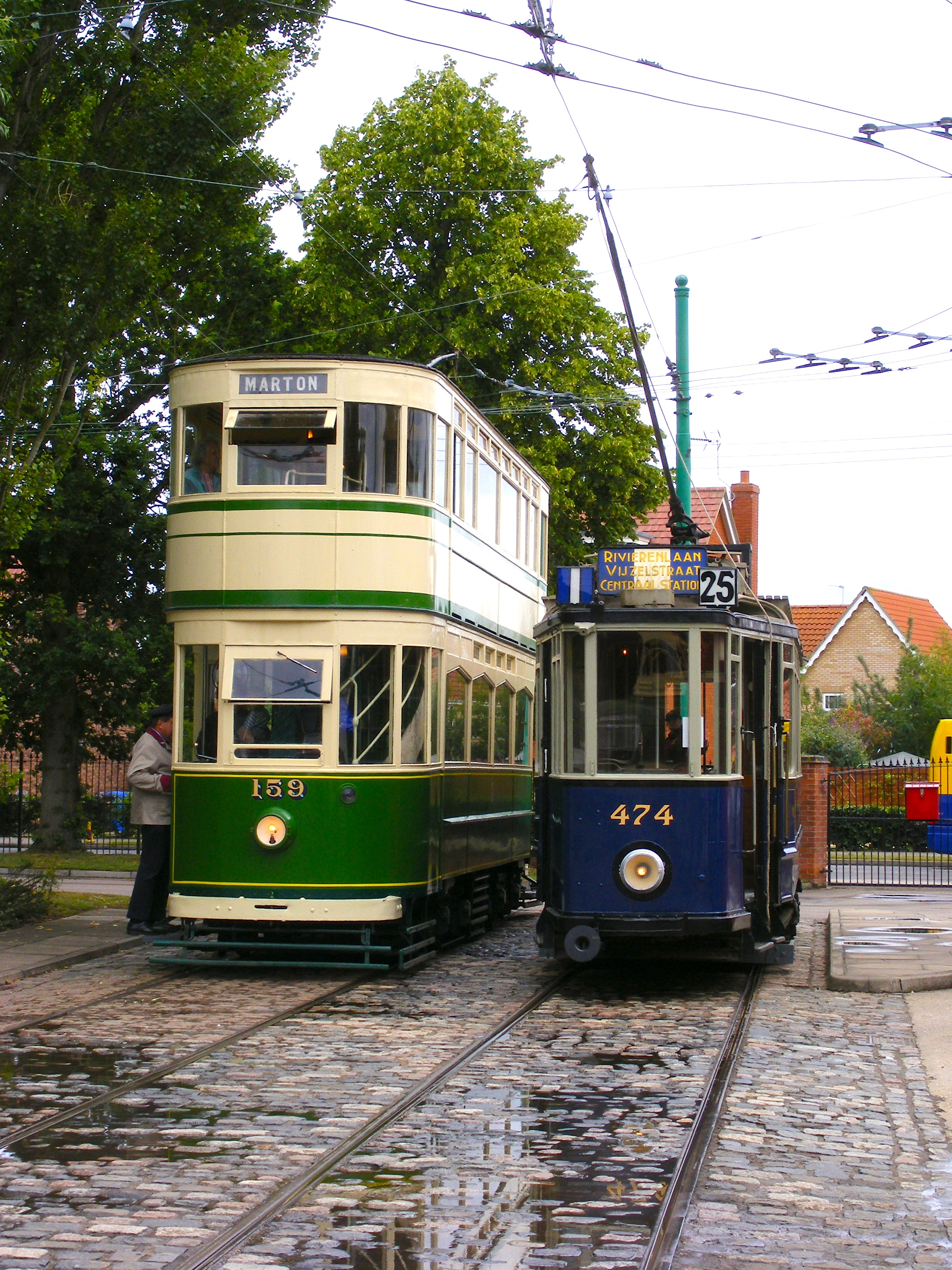 East Anglian Transport Museum Two of the museum's trams awaiting passengers. 159 is an ex-Blackpool tram while 474 is ex-Amsterdam.